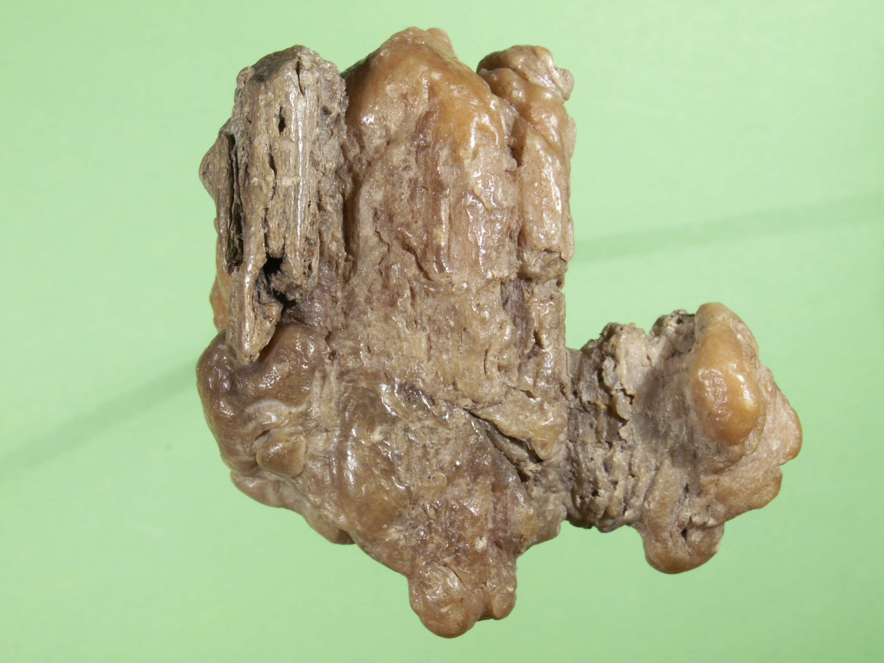 Amber from Bitterfeld, beckerite